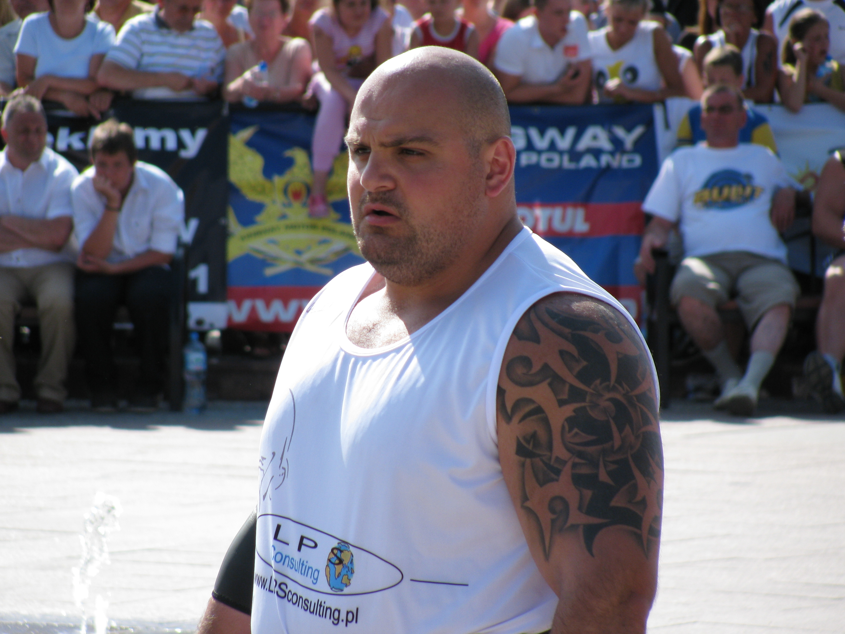 Laurence Shahlaei - a strength athlete from England